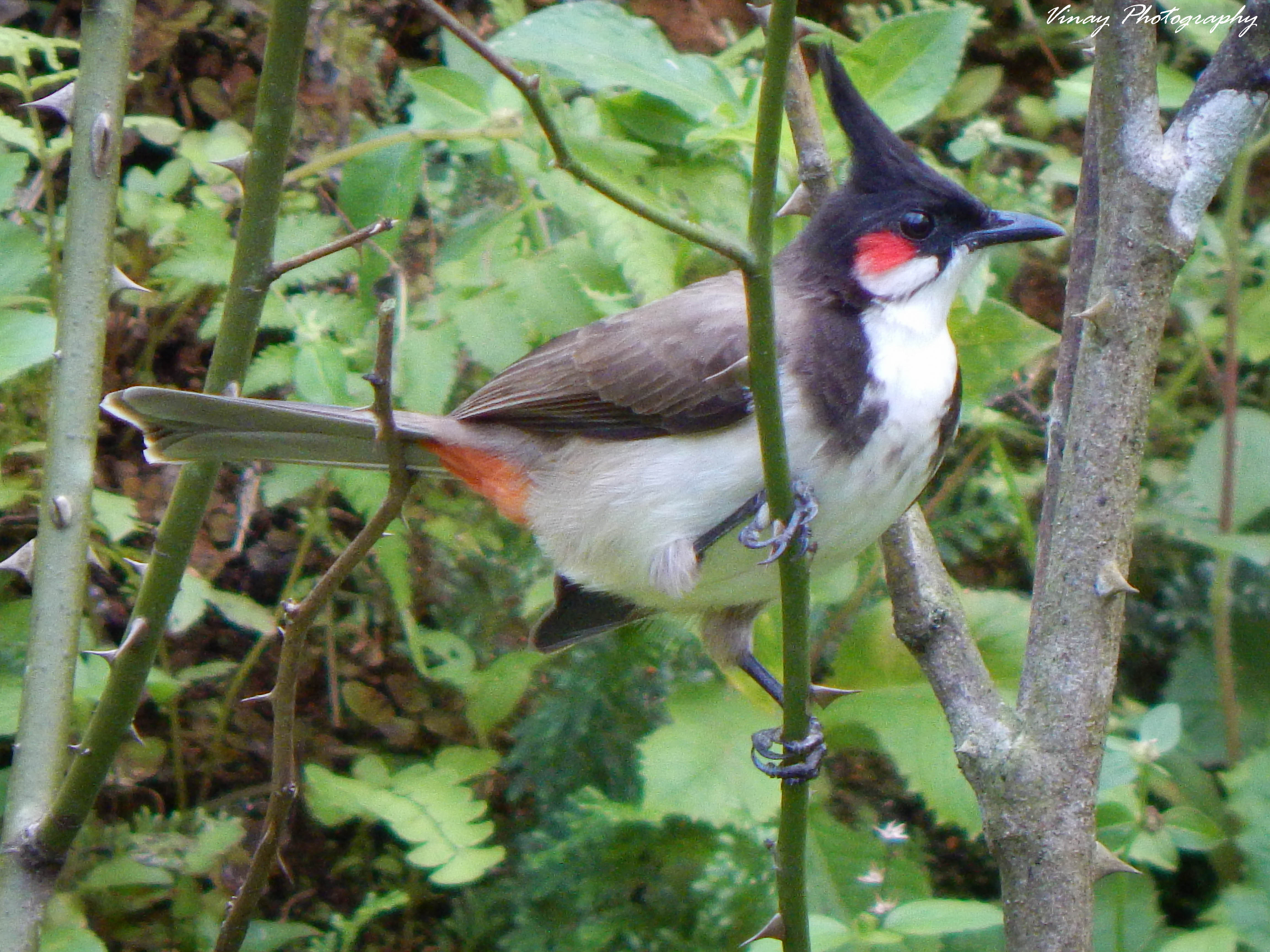 Red whiskered bulbul male found in Sirsi,India